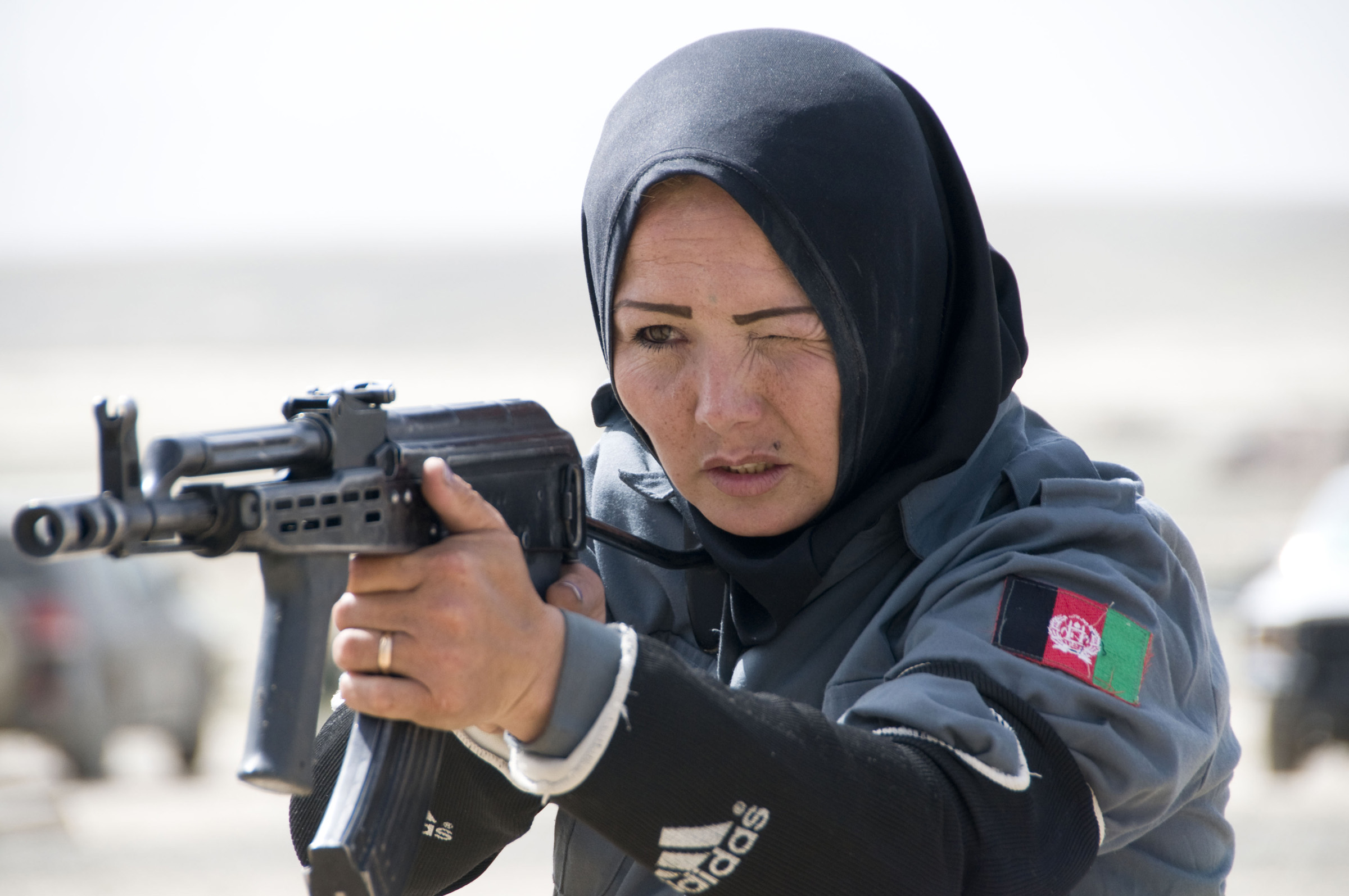 100413-F-1020B-008 Kabul -An Afghan National Police woman qualifies on the AMD-65 rifle during the tactical training program portion of the police basic training course at Kabul Military Training Center, April 13, 2010. During the eight-week course, trainees learn police-specifics such as penal and traffic codes, use of force and improvised explosive device detection. The course also covers the Afghan constitution, human rights and two weeks on weapons and tactical training. (U.S. Air Force photo by Staff Sgt. Sarah Brown/RELEASED)